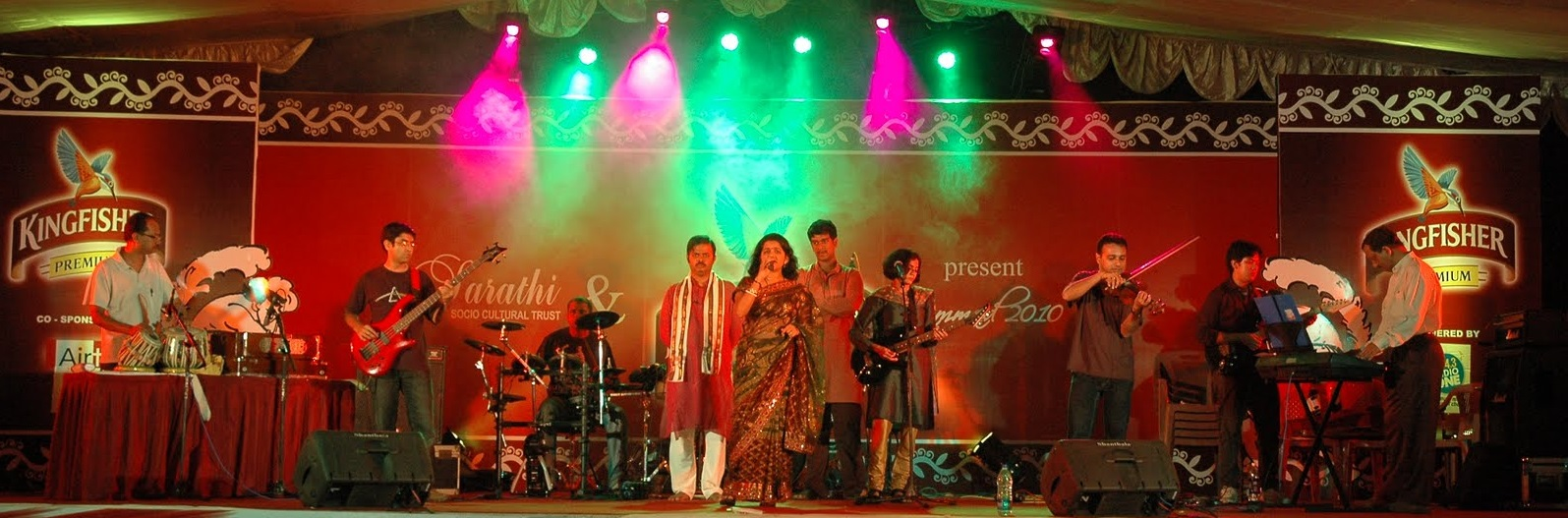 Kohal Team in a performance